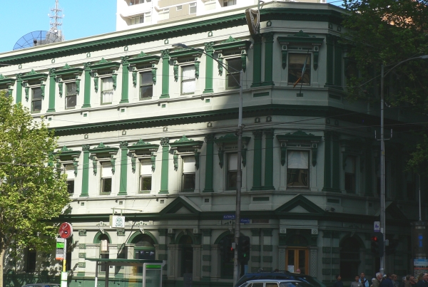 Celtic Club building. cnr La Trobe and Queen Street. Melbourne